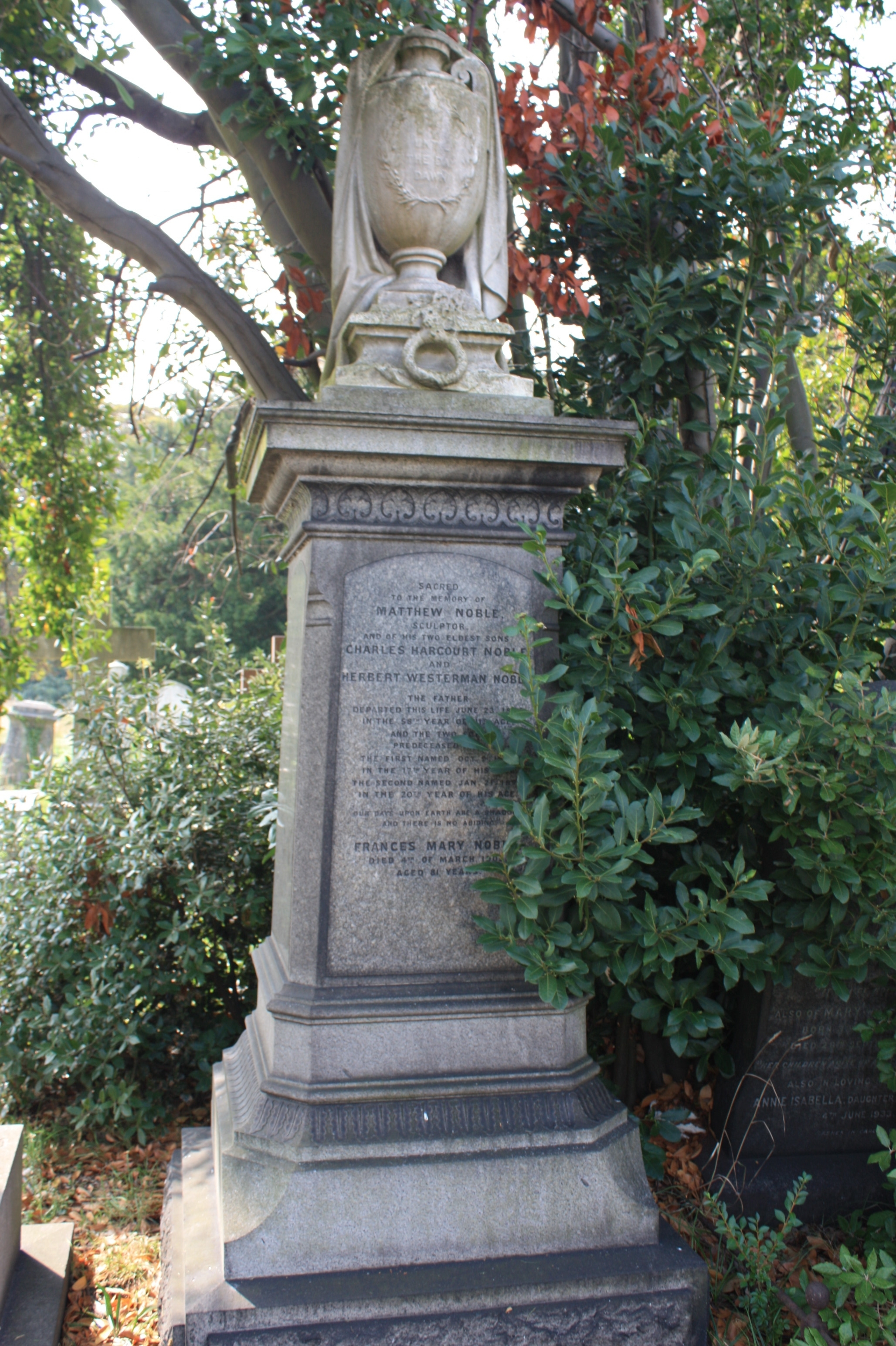 Matthew Noble's grave, Brompton Cemetery, London